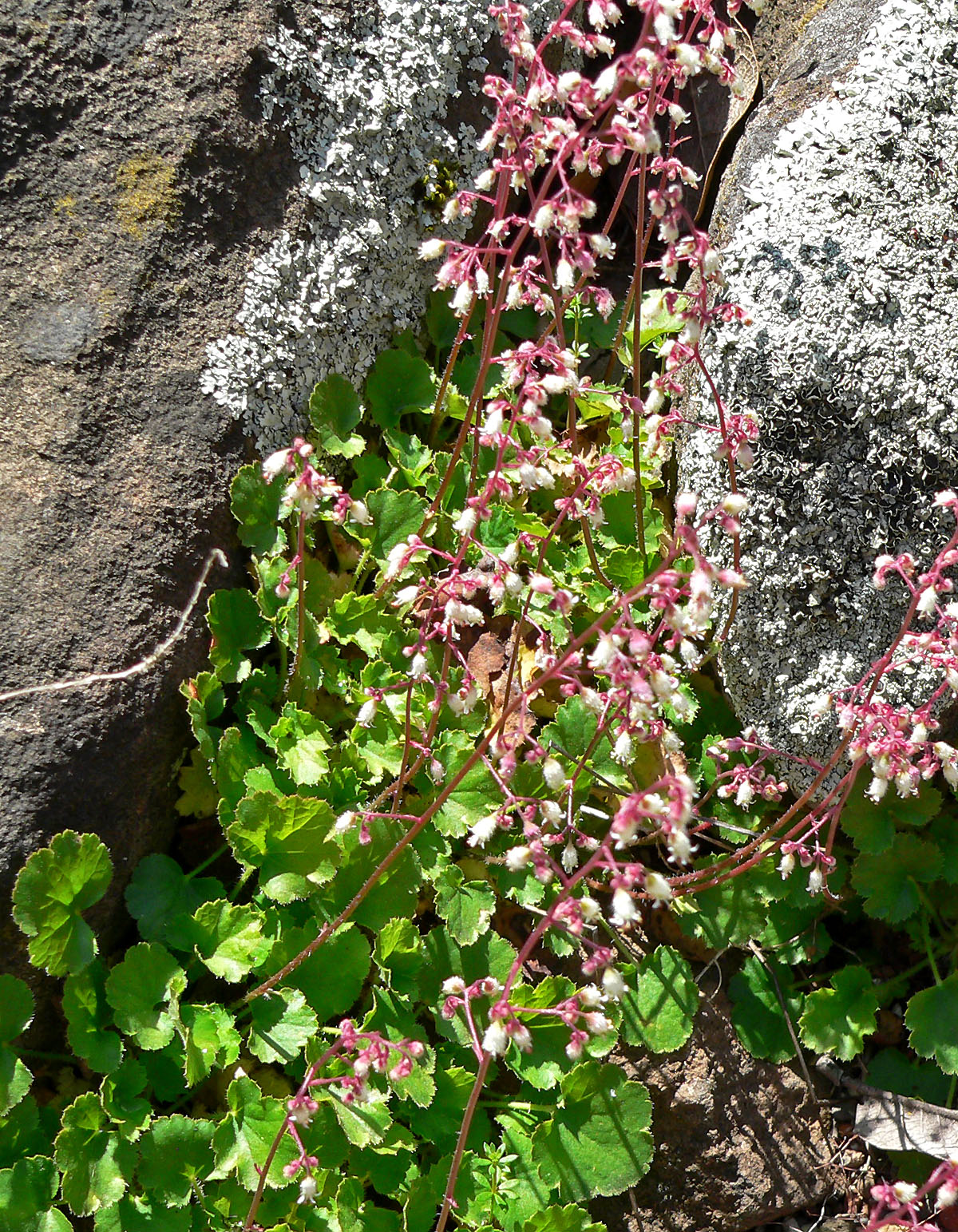 Heuchera rubescens var. rydbergiana At the University of California Botanical Garden, Berkeley, California